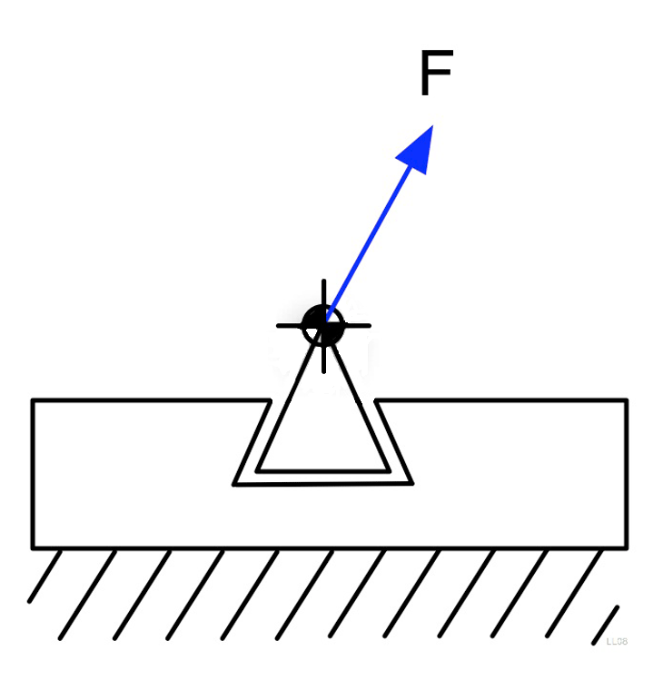 Principles drawing of a shape fasten principle.